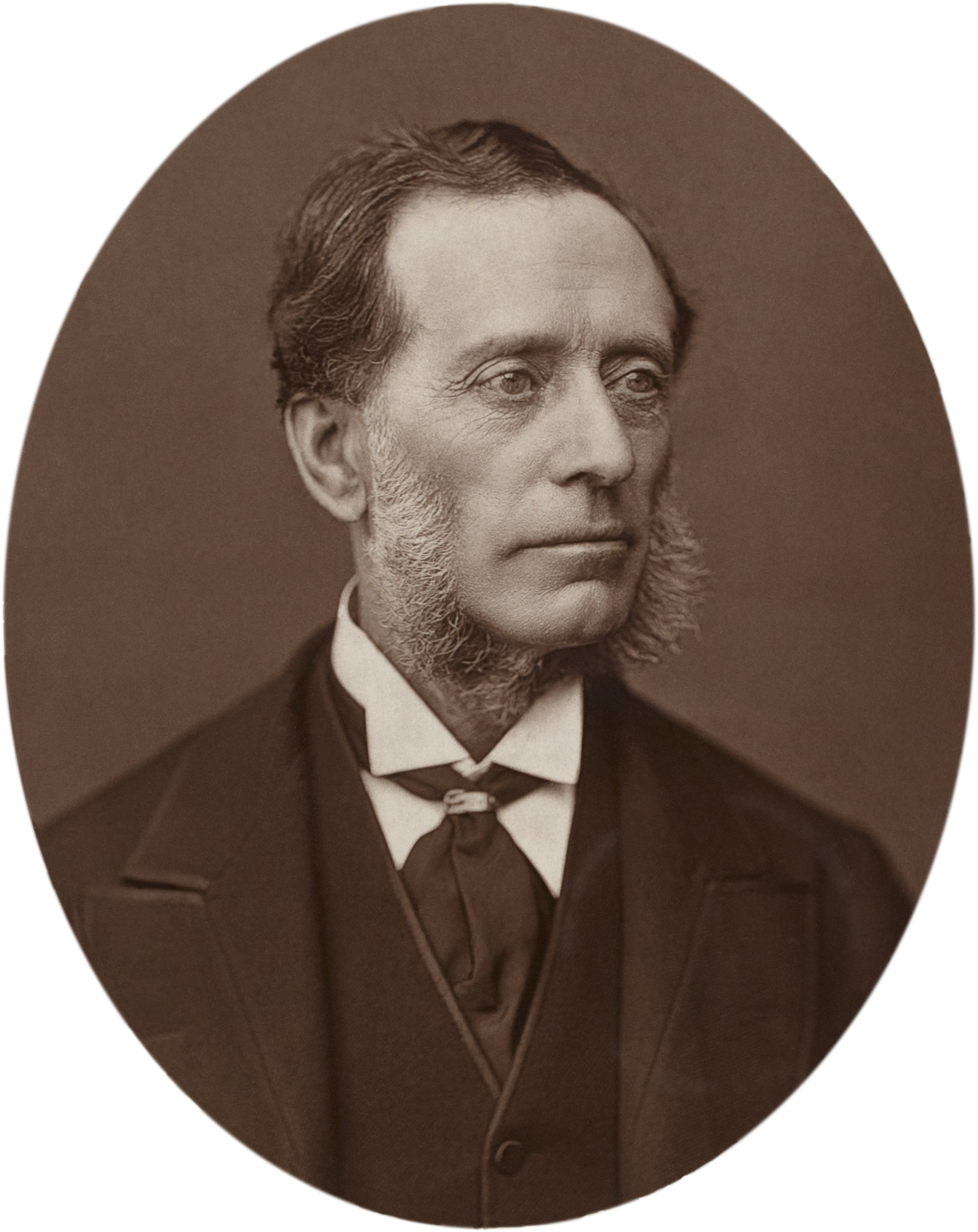 Francis Leopold McClintock (1819 - 1907), Irish officer of the British Navy, and explorer of the North of Canada.